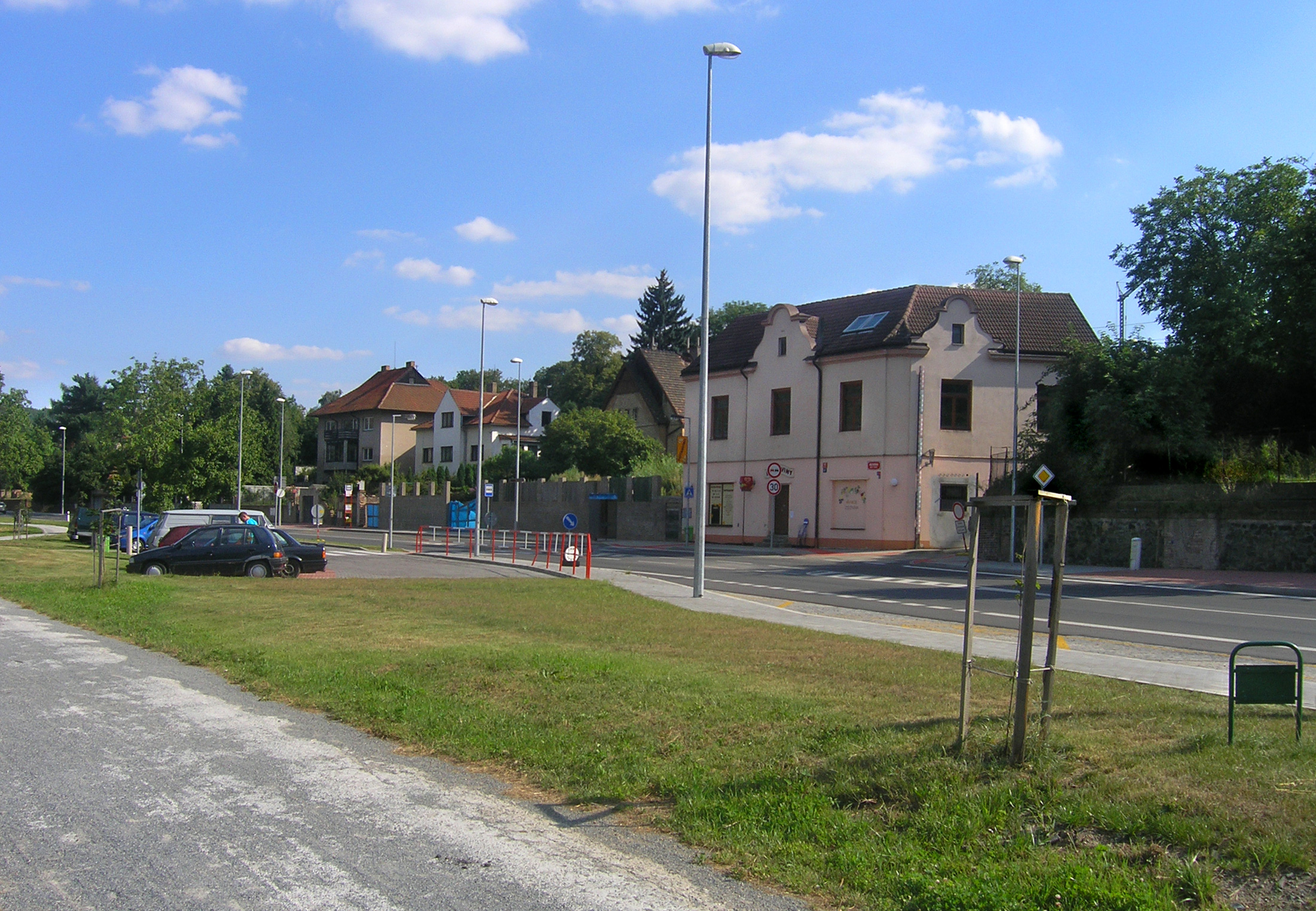 Roztocká street in Sedlec, Prague